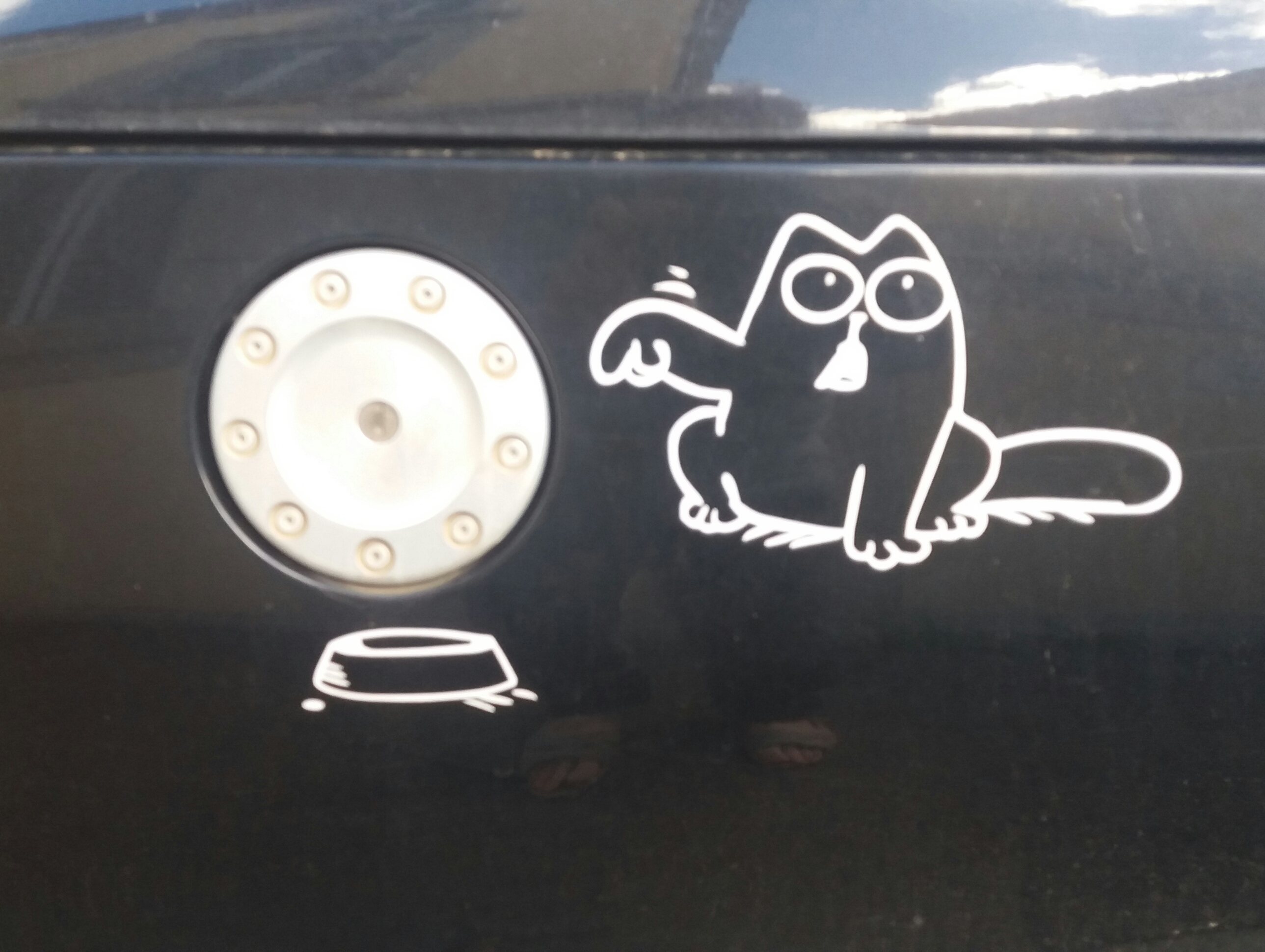 Graffiti of Simon's cat meaning: put here gasoline